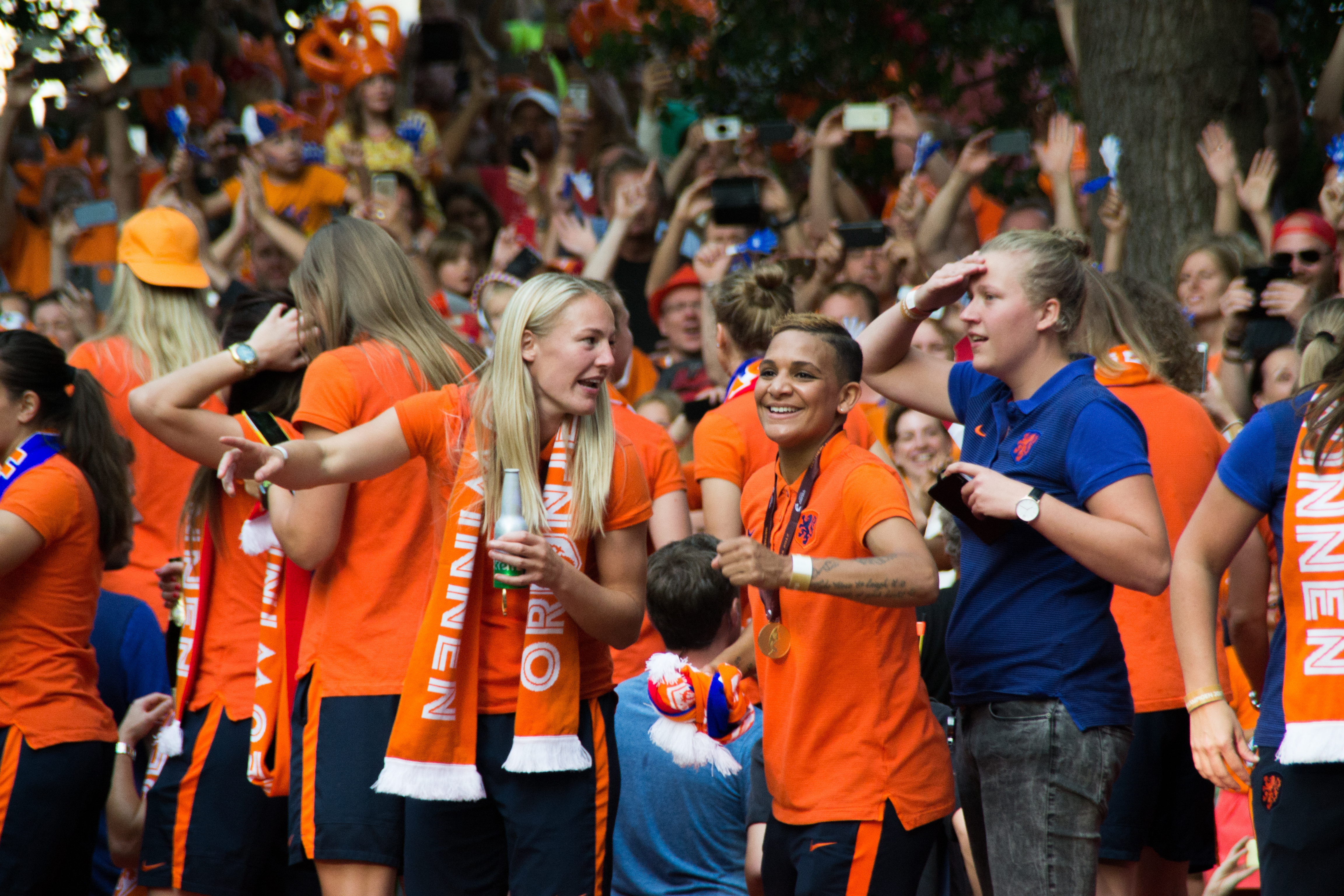 Stefanie van der Gragt and Shanice van de Sanden during the honouring of the Dutch National Female Football Team at Utrecht Lepelenburg